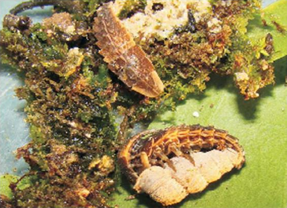 Two larvae of early stages Alecton discoidalis feeding on Torrella immersa (probably family Pomatiidae) in captivity.